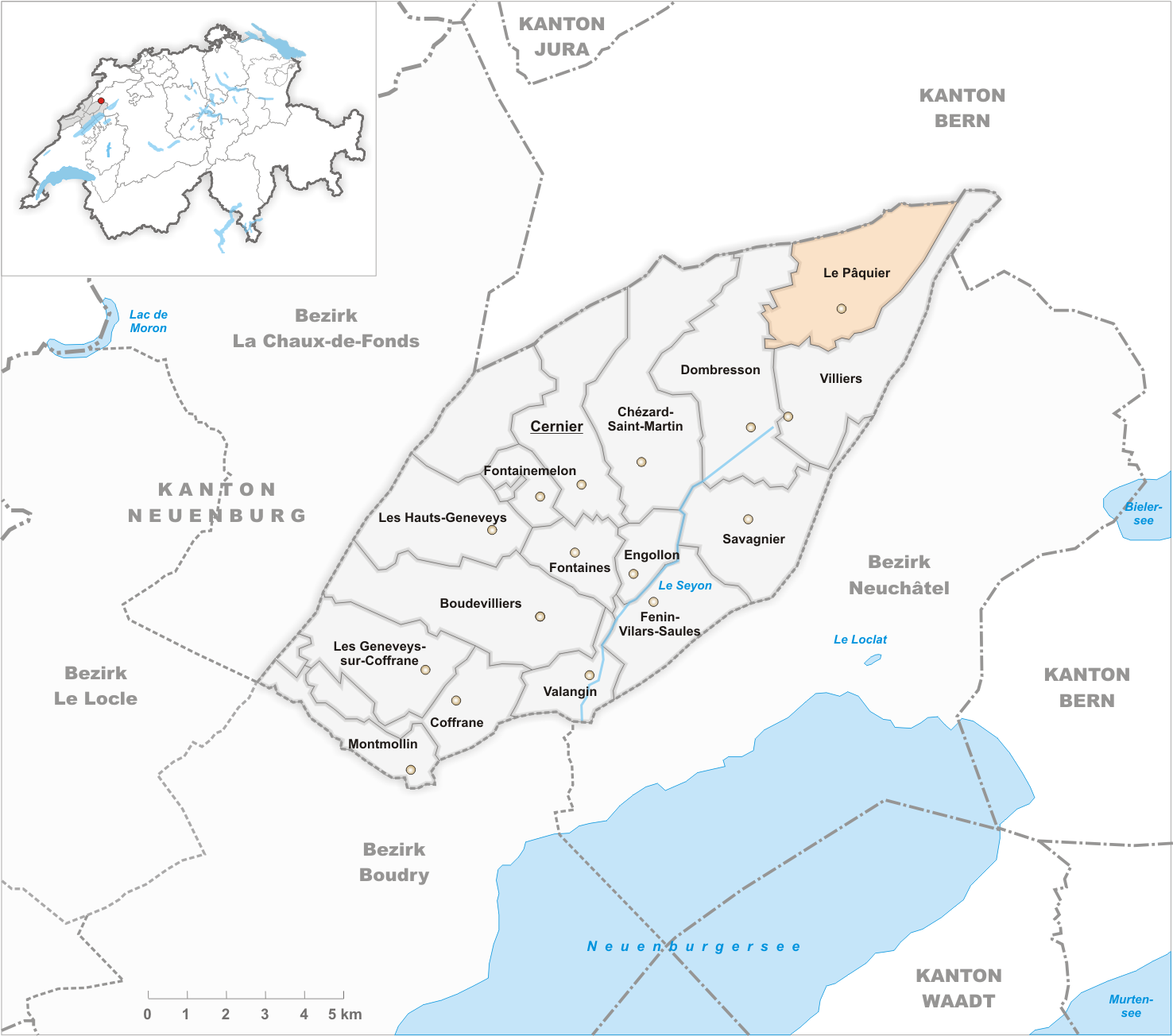 Municipality Le Pâquier